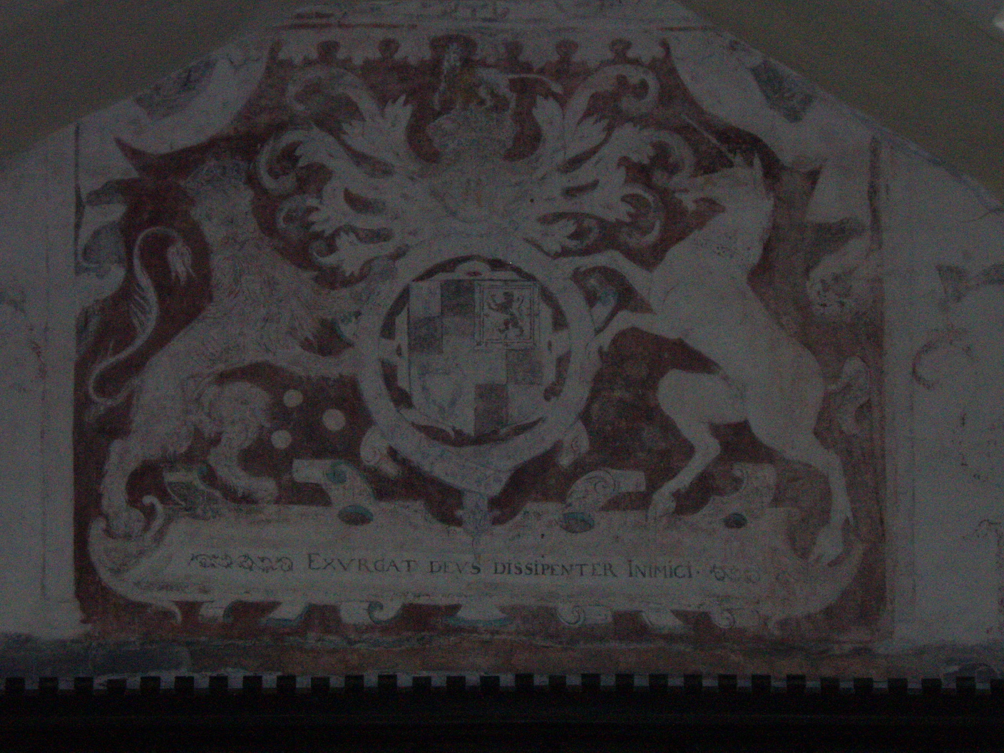 Royal coat of arms from James I (England) painted at St. Mary's Church (CoE), West Bergholt, Colchester, Essex, UK